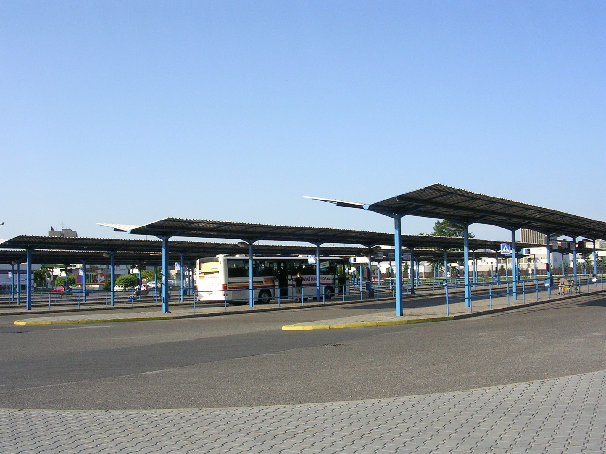 Strakonice, the Czech Republic. Bus station.